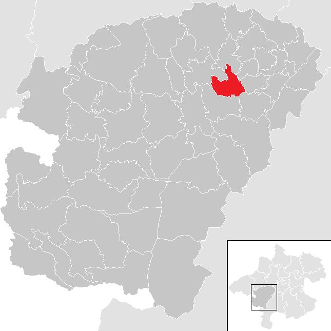 District Vöcklabruck